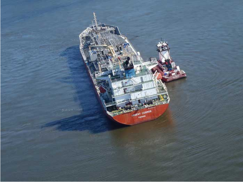 The Panamanian tanker Argent Cosmos after she ran aground in the Columbia River near Skamokawa, Washington, on 6 June 2017.